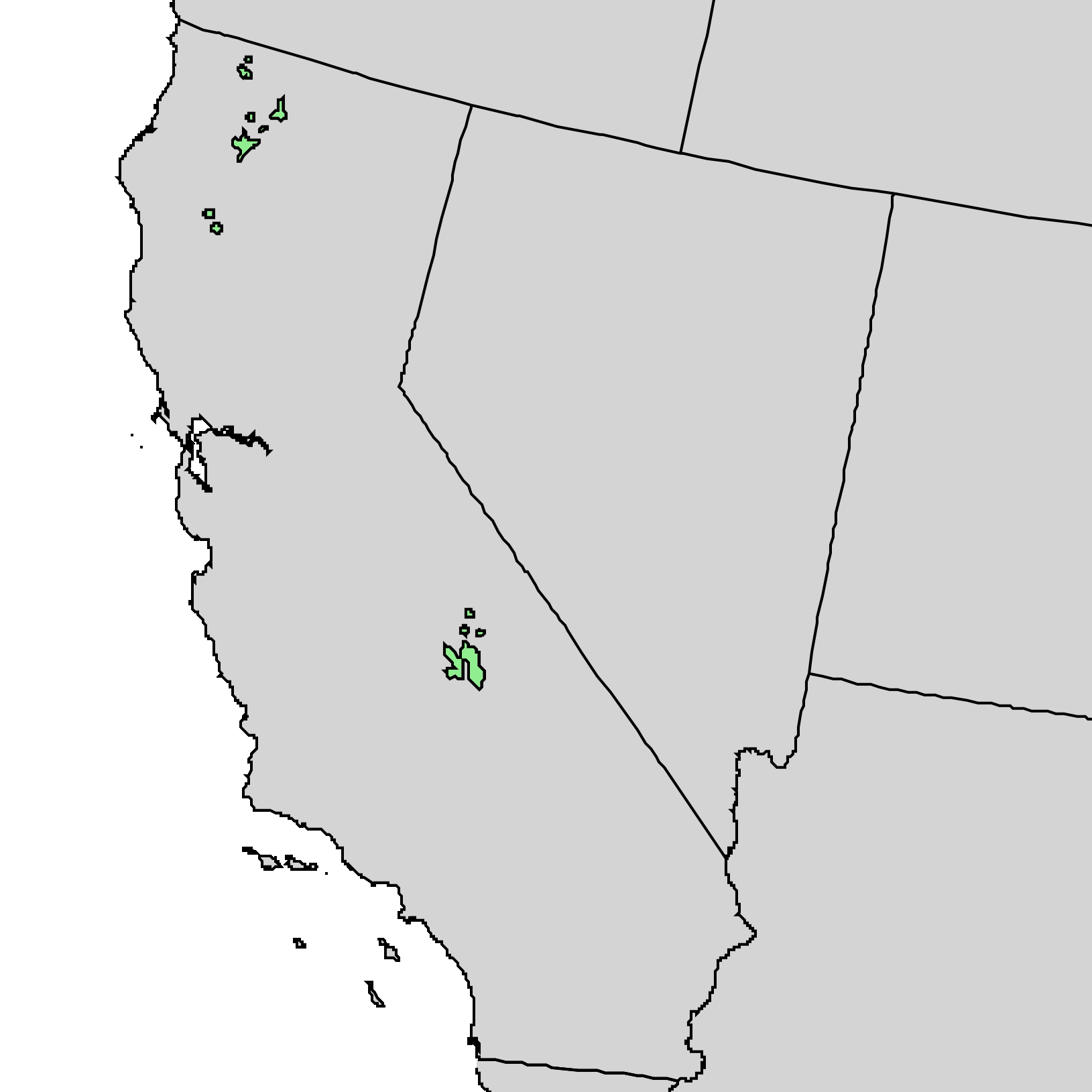 Natural distribution map for Pinus balfouriana